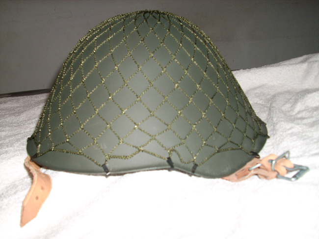 NVA helmet with its camouflage net